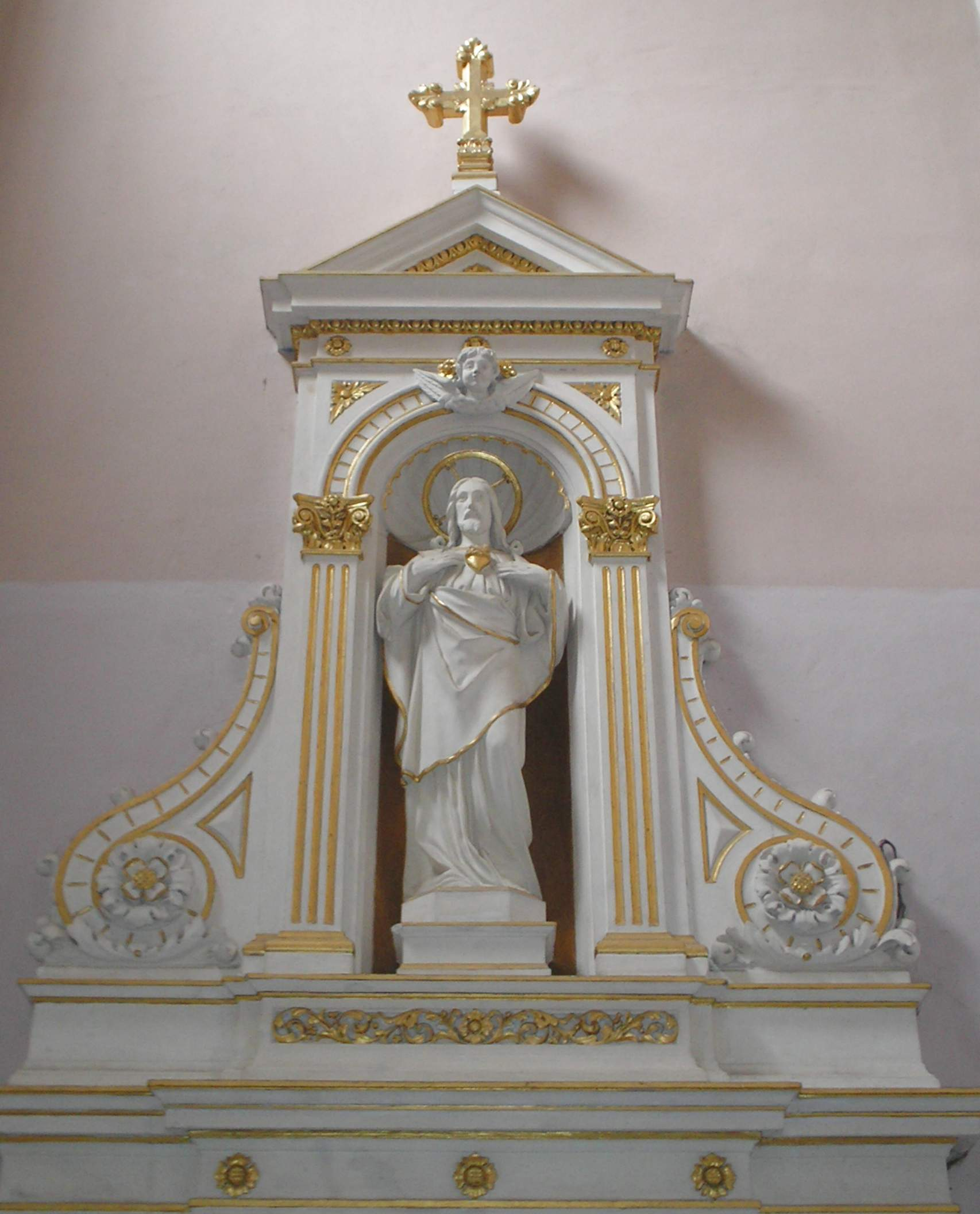 Sacred Heart of Jesus Christ, Bjelovar, Croatia